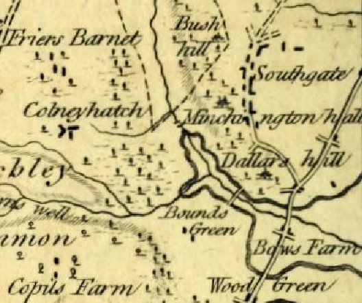 Plate 1 An actual survey of the great post-roads between London and Edinburgh.